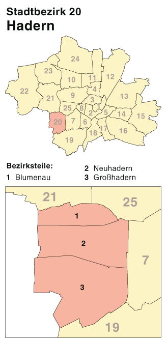 Boroughs of Munich map series